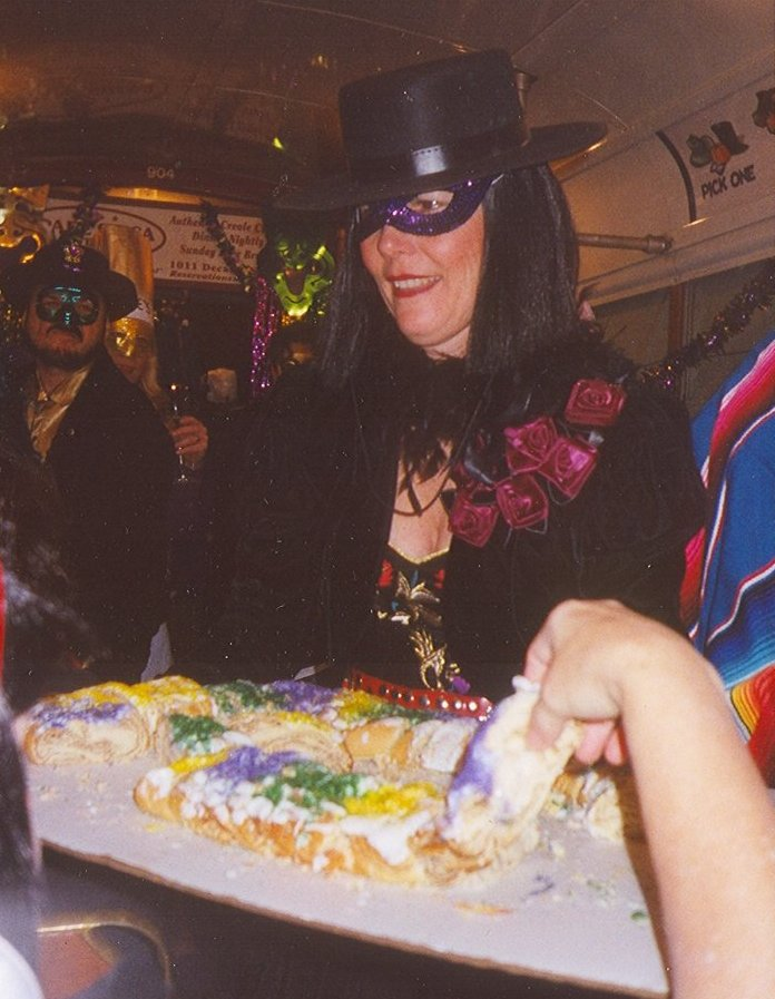 Serving the Kingcake, New Orleans Carnival party, 2002. Photo by Infrogmation